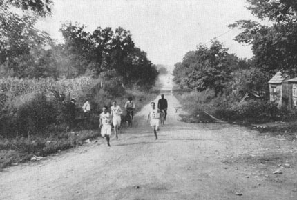 Marathon race led by Samuel Mellor during 1904 Summer Olympics